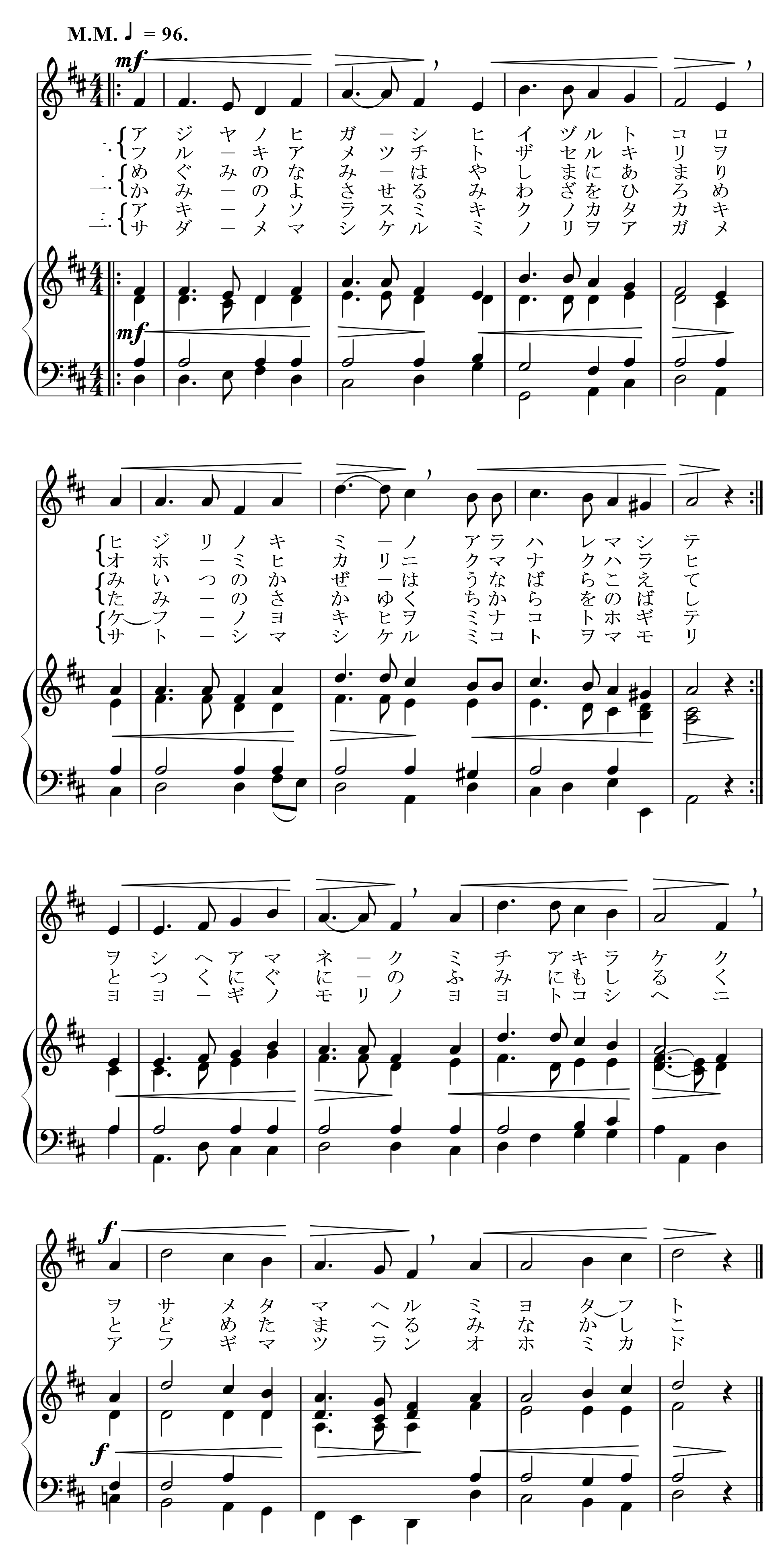 Sheet music of the Japanese ceremonial song "Meijisetsu".